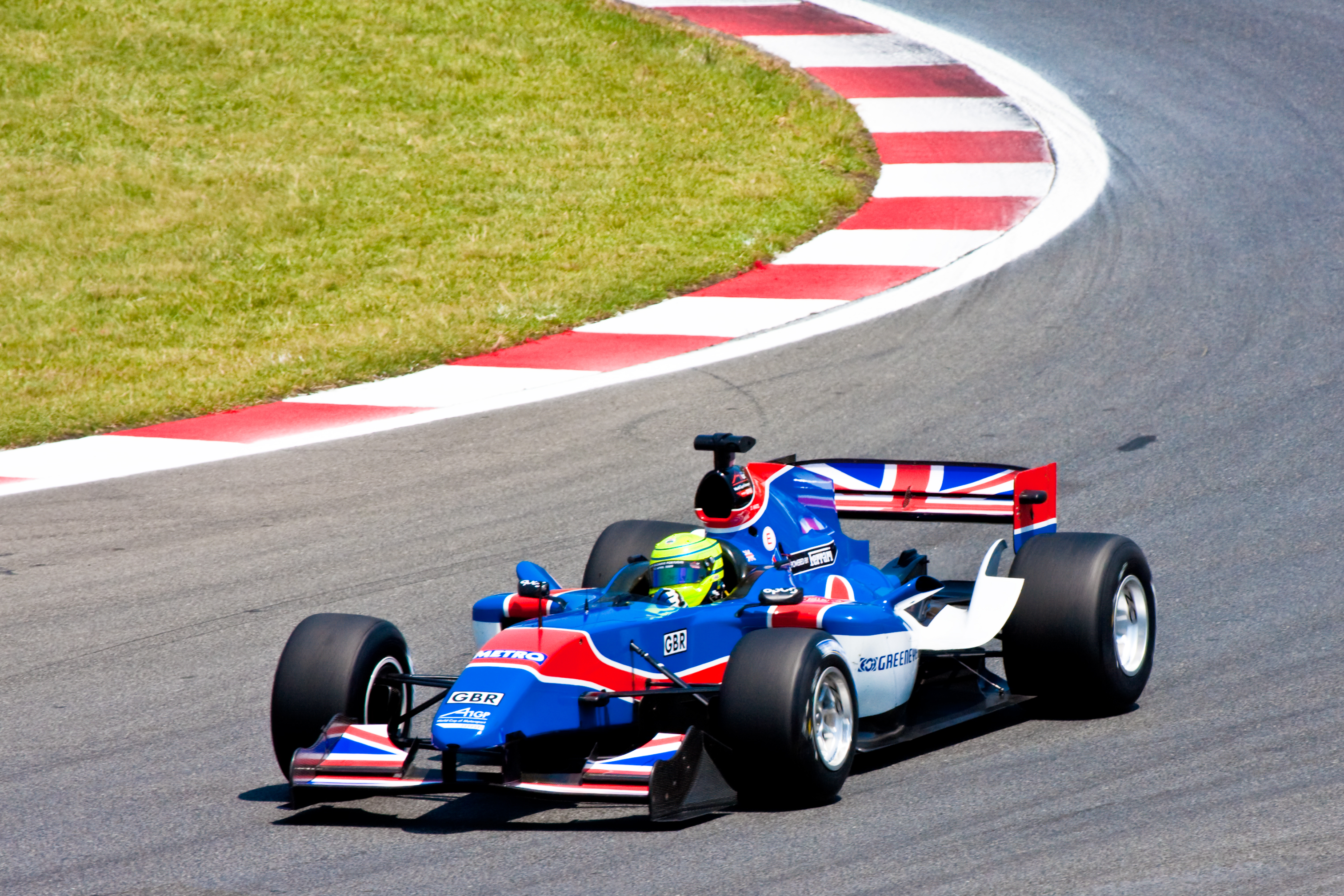 Team Great Britain @ A1 Grand Prix Kyalami South Africa 2009